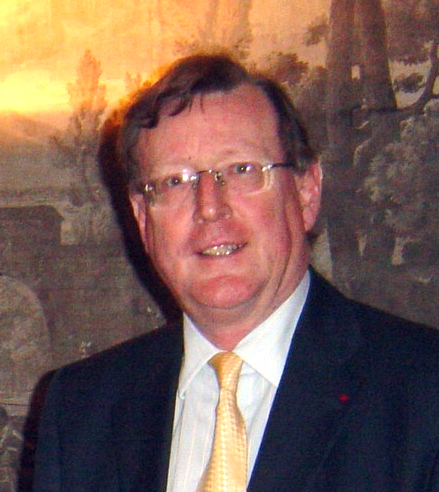 Cropped image of Nobel Prize winner David Trimble, Baron Trimble taken at Hillsborough Castle in December 2007.